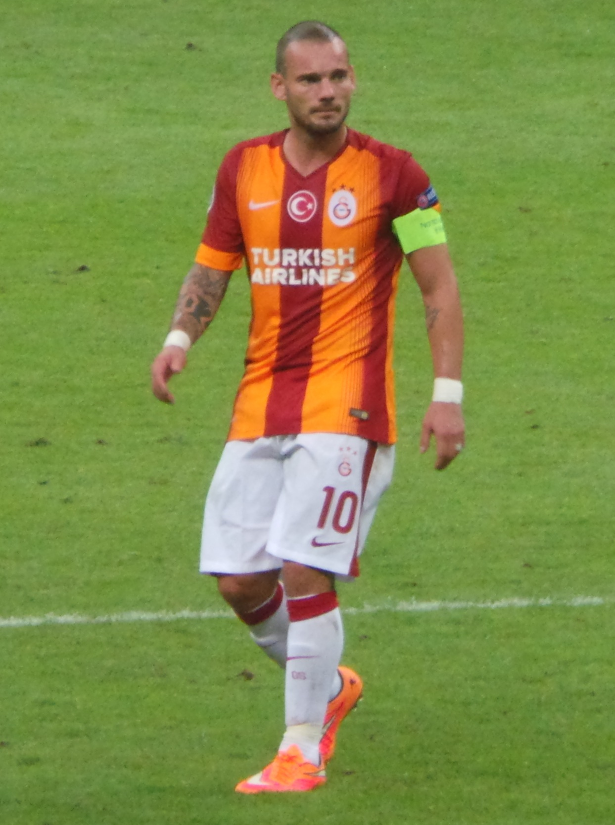 Ænglisc: Wesley Sneijder against RSC Anderlecht Champions League 1st day match